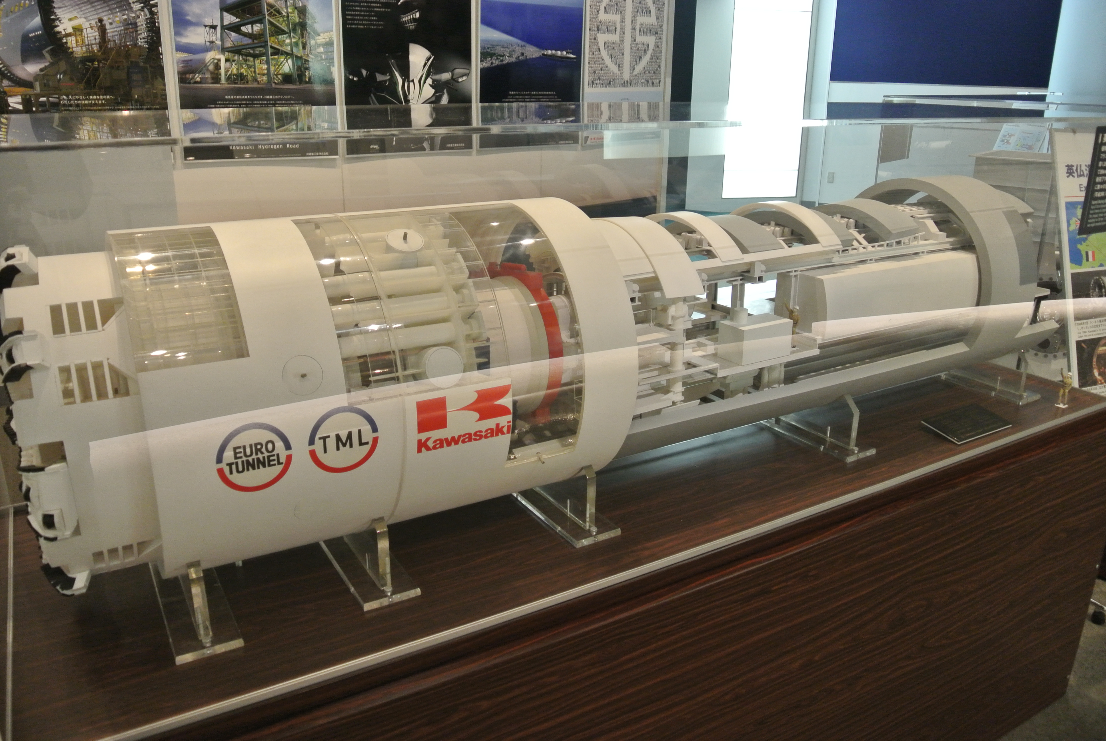 Kawasaki 1/20 scale model TBM used for the construction of the Channel Tunnel.